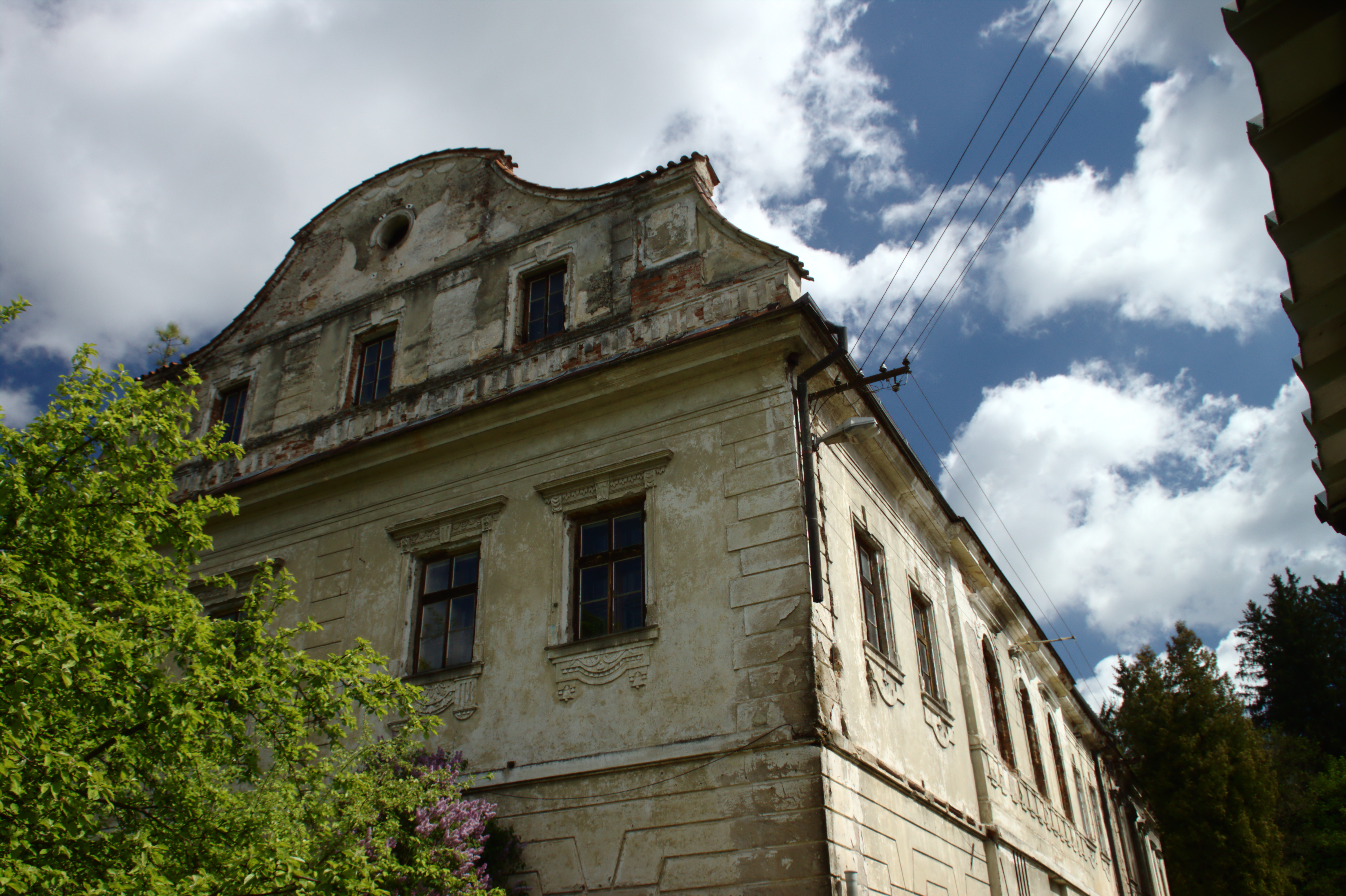 Ronov nad Sázavou Castle, Vysočina Region, CZ